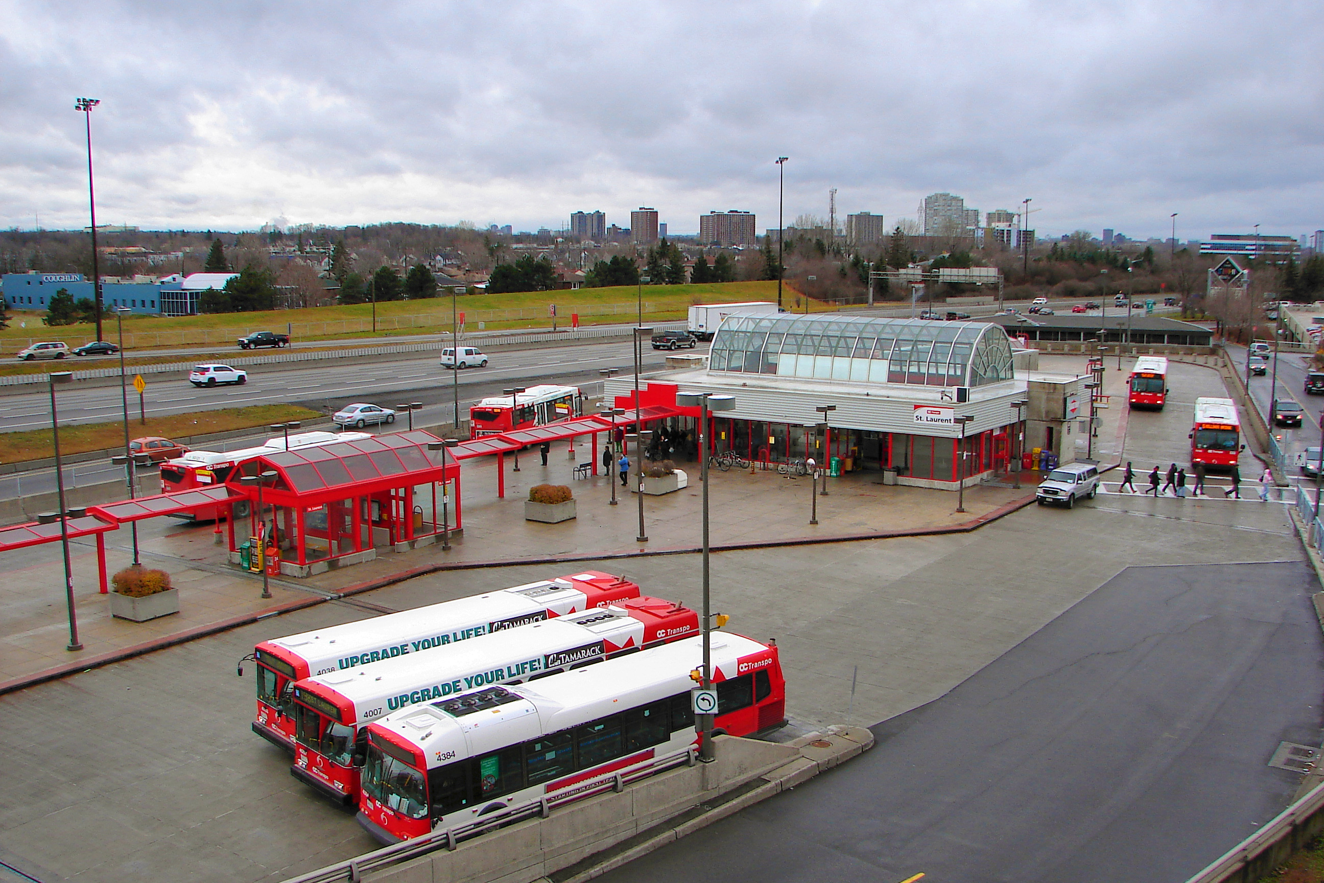 St-Laurent OC Transpo Station with Queensway in the background, Ottawa, Ontario, Canada